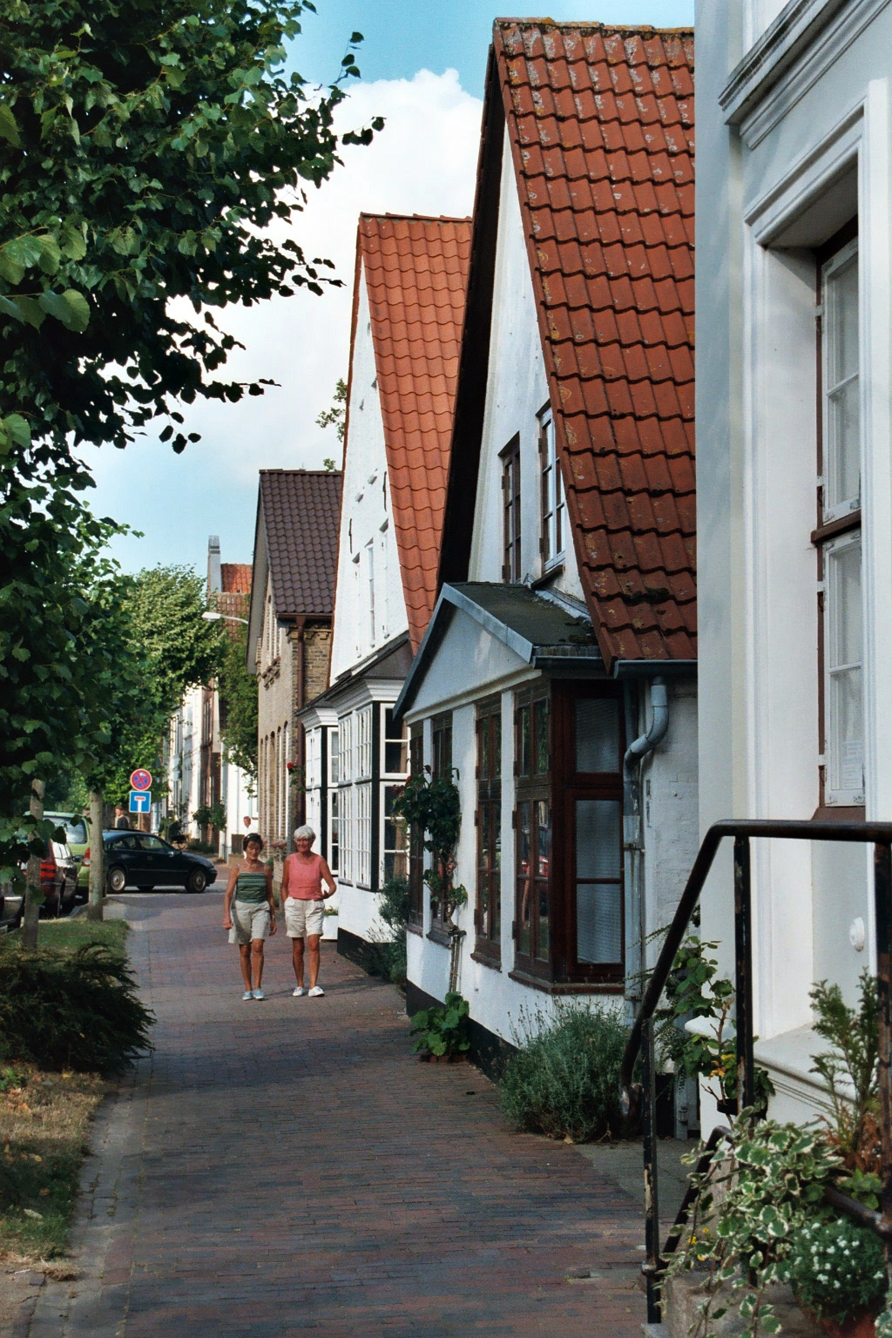 Arnis, the Lange Straße